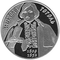 Coin of Ukraine